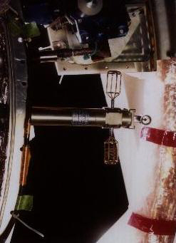 Huygens Atmospheric Structure Instrument from Huygens